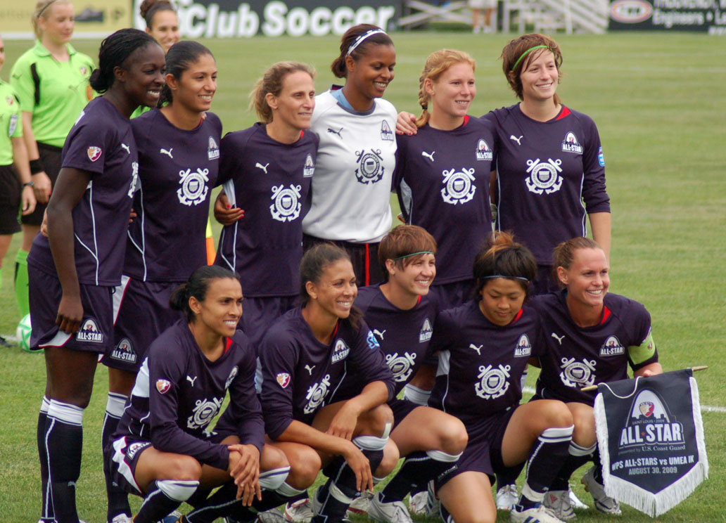 2009 WPS All Star staring line-up.